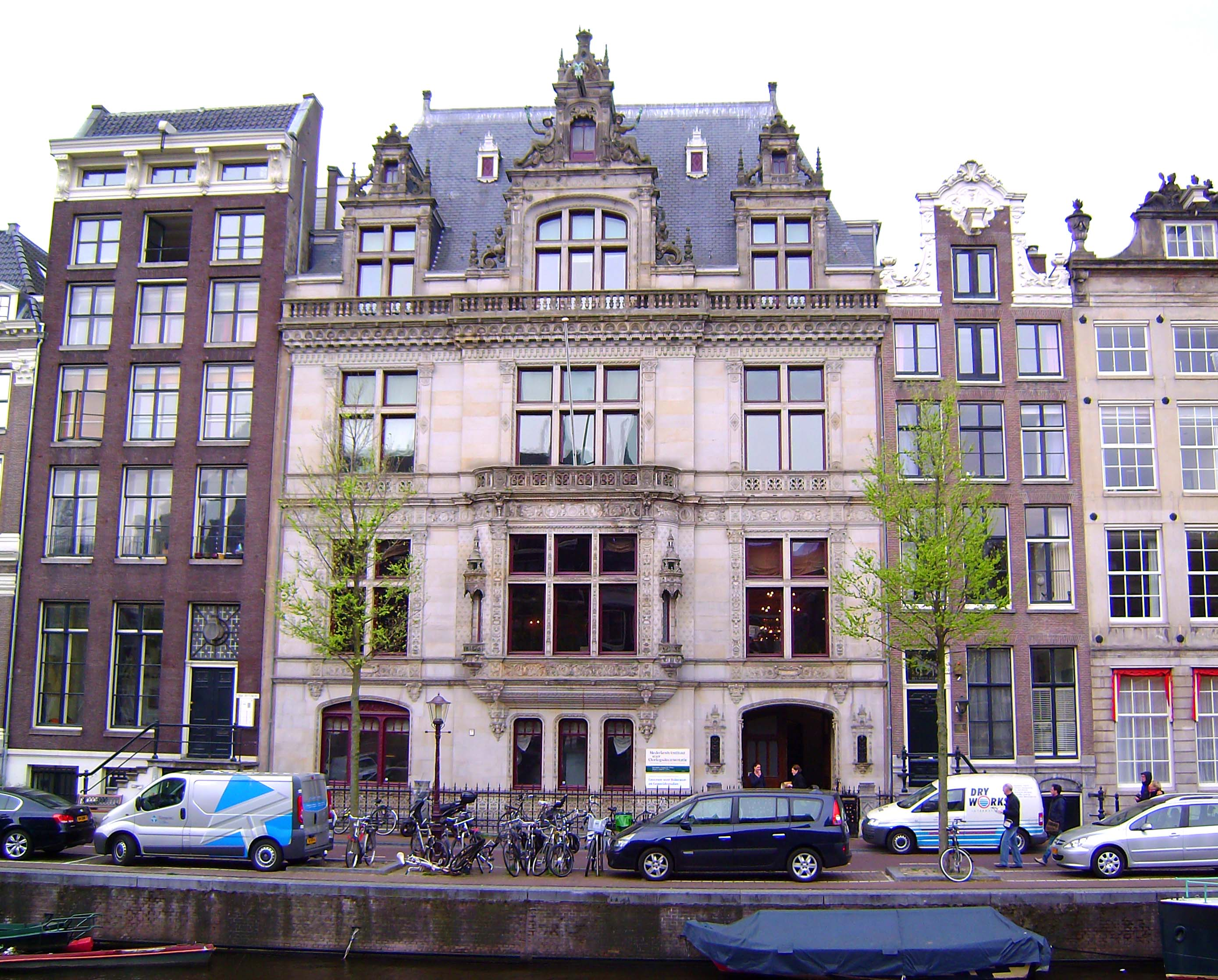 The Dutch Institute for War Documentation at Herengracht 380 in Amsterdam. Architecture by Gerlof Bartholomeus Salm.